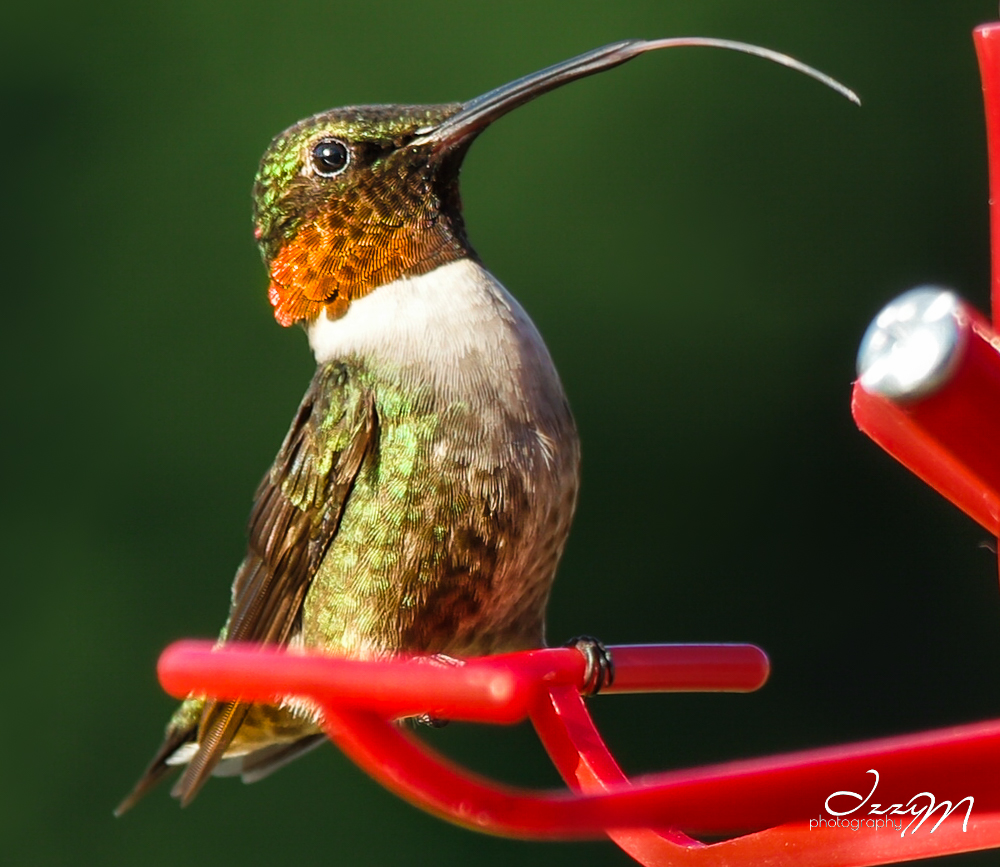 RubyThroated Humming Bird